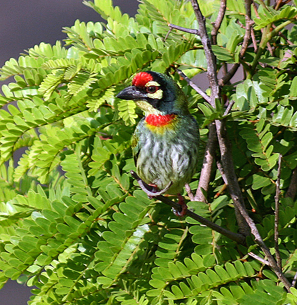 Coppersmith Barbet Megalaima haemacephala in Kolkata, West Bengal, India.